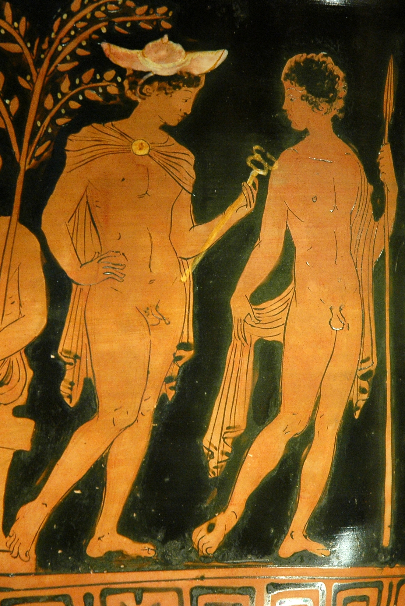 Hermes and a young warrior. Side A (detail) from a red-figure bell-shaped krater.